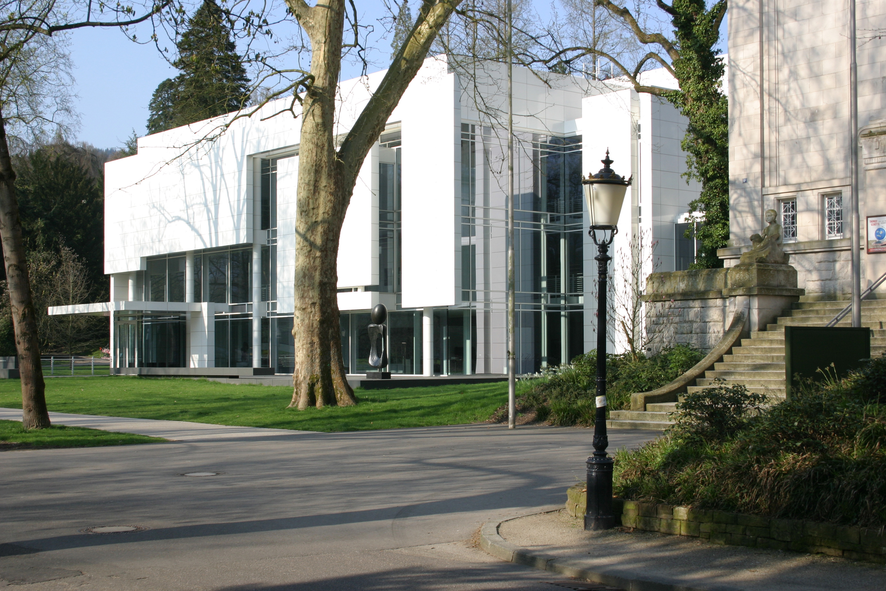 Museum Frieder Burda, Baden-Baden, Germany.